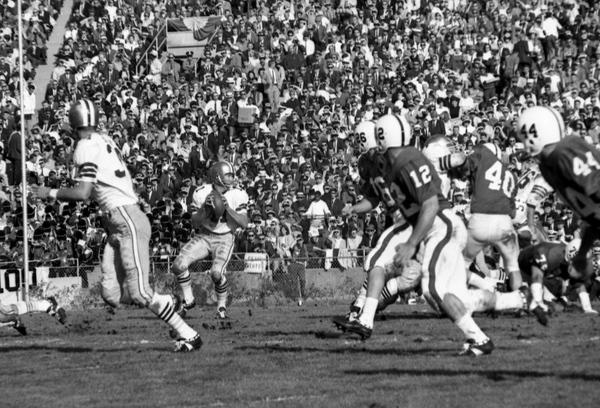 FSU quarterback #11 Kim Hammond dropping back to pass during Gator Bowl game against PSU in Jacksonville.